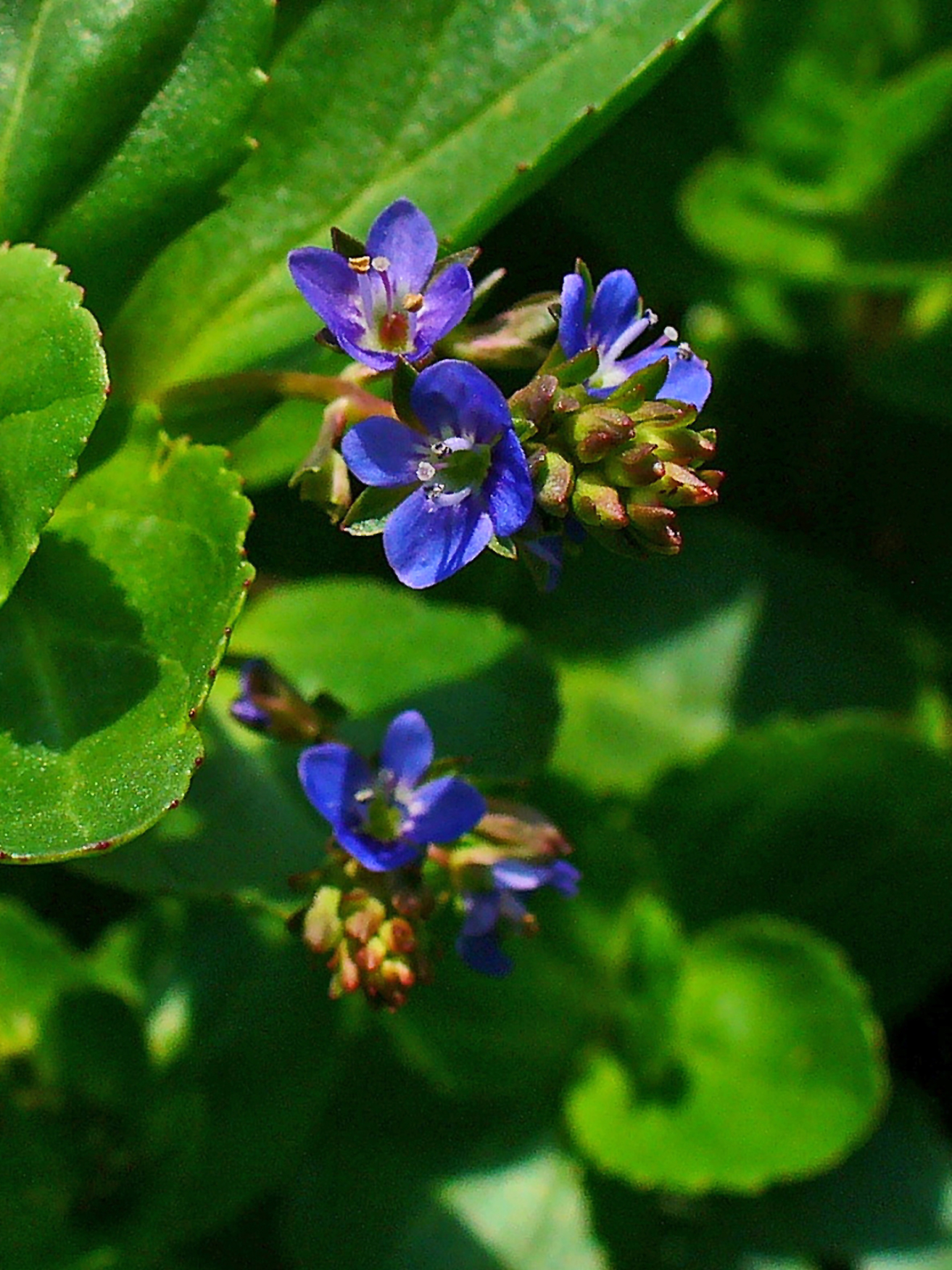 Veronica beccabunga, Plantaginaceae, Brooklime, inflorescence.